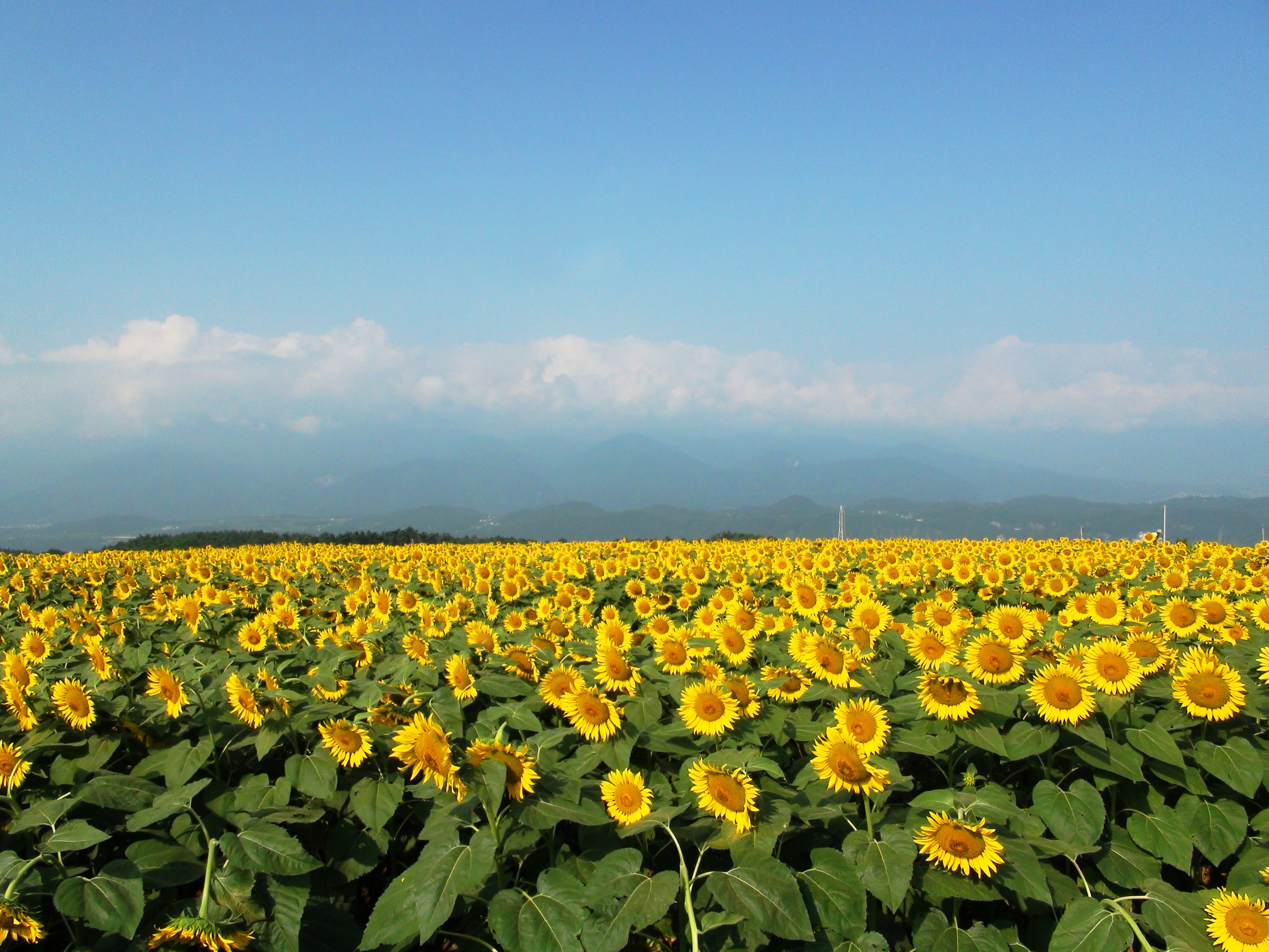 Hokuto City Akeno village sunflower field